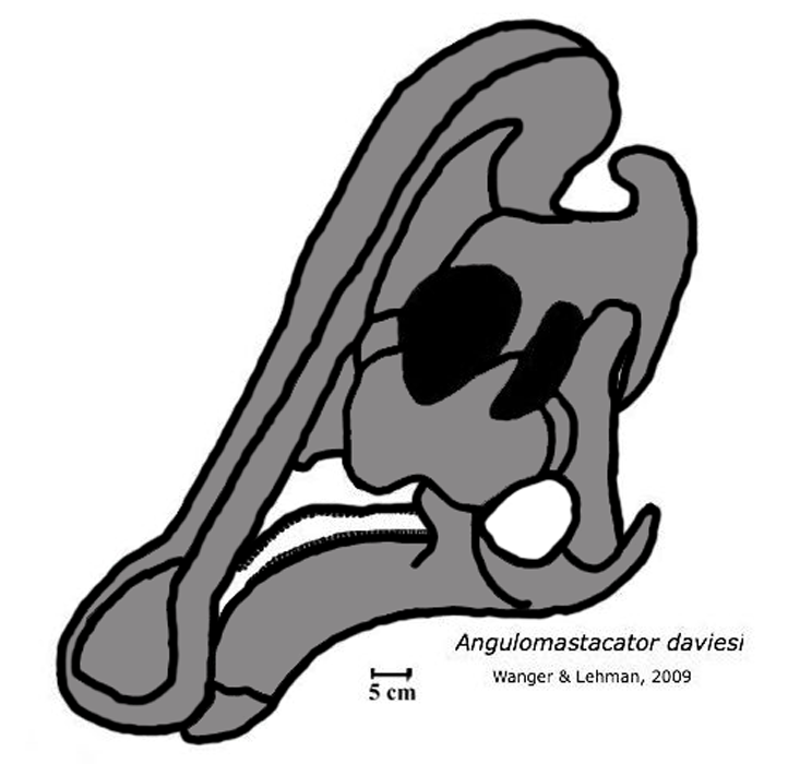 Reconstruction of the skull of Angulomastacator daviesi. All that is known of the holotype is one distinctive maxilla, which has a great ventral deflection.